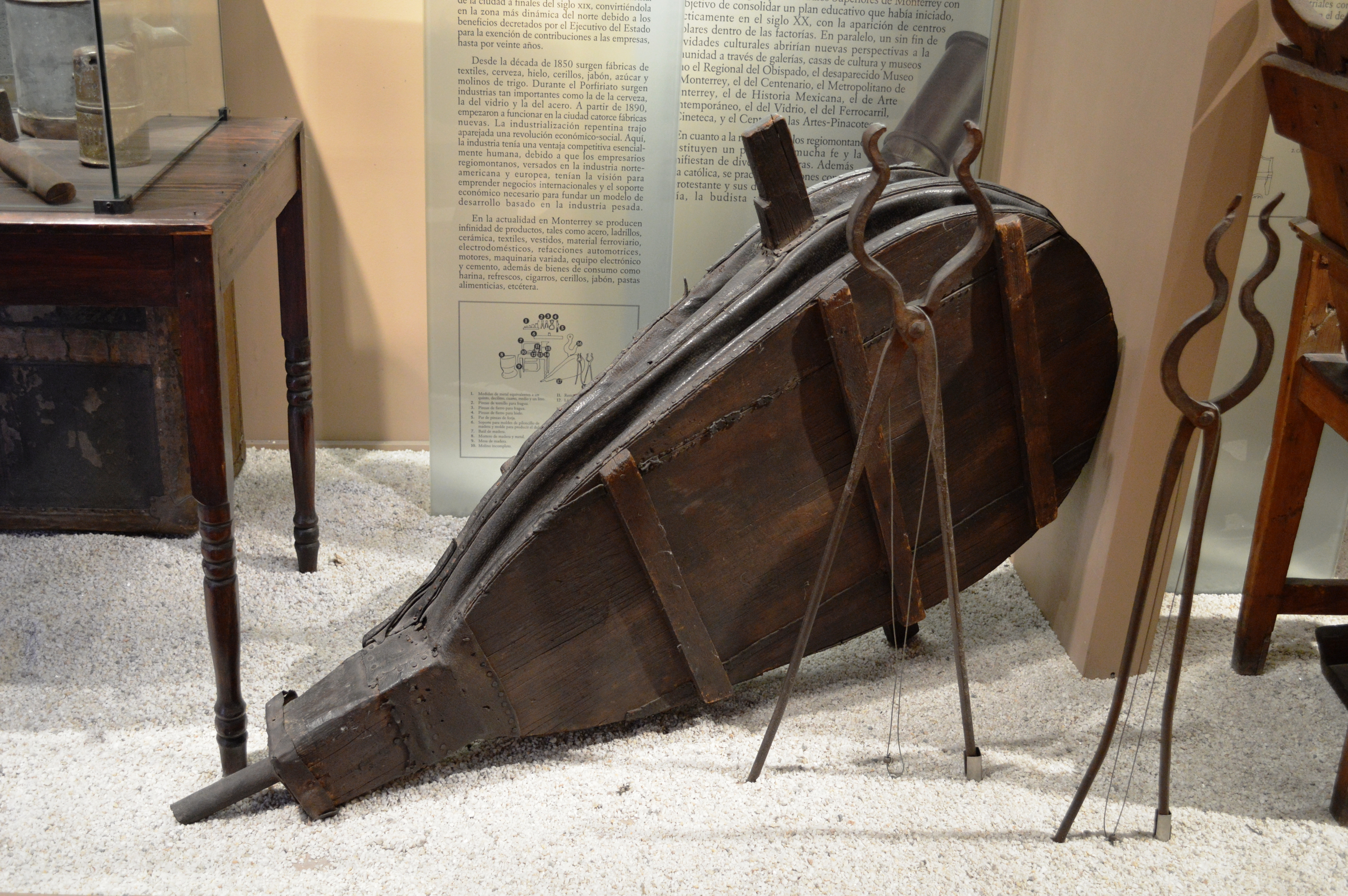 Bellows on display at the Museo Metropolitano de Monterrey in Monterrey, Mexico